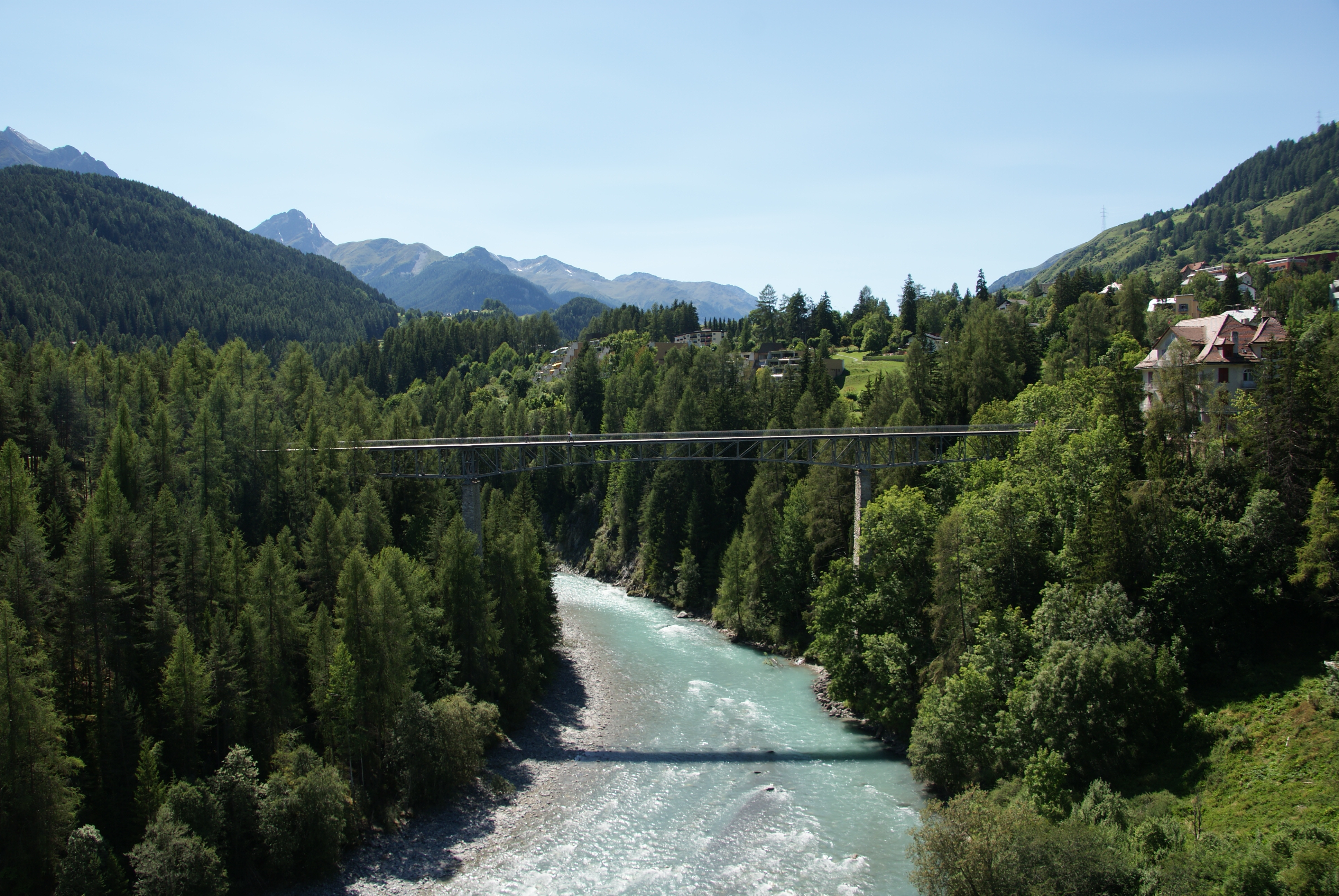 Scuol, Lower Engadine